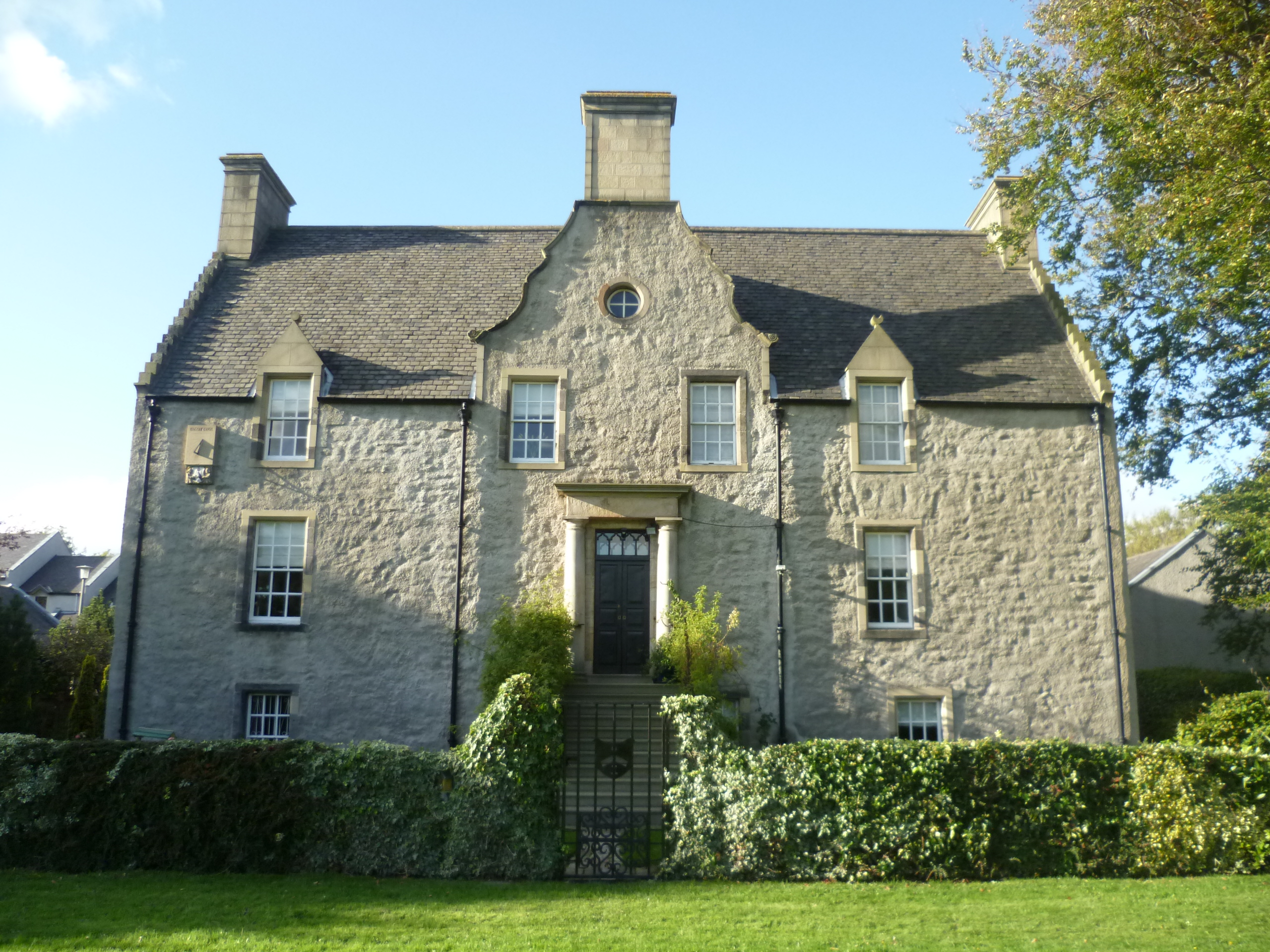 Home of the Balfour family, maternal forbears of the author Robert Louis Stevenson